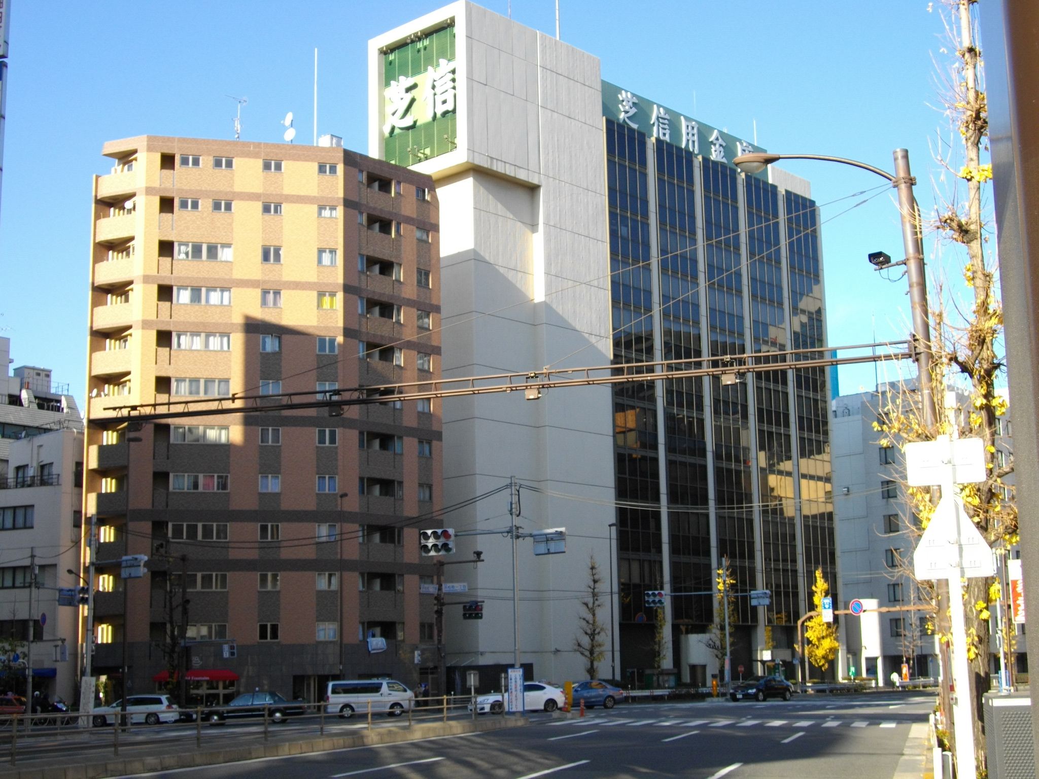 Shiba Shinkin Bank Head Office